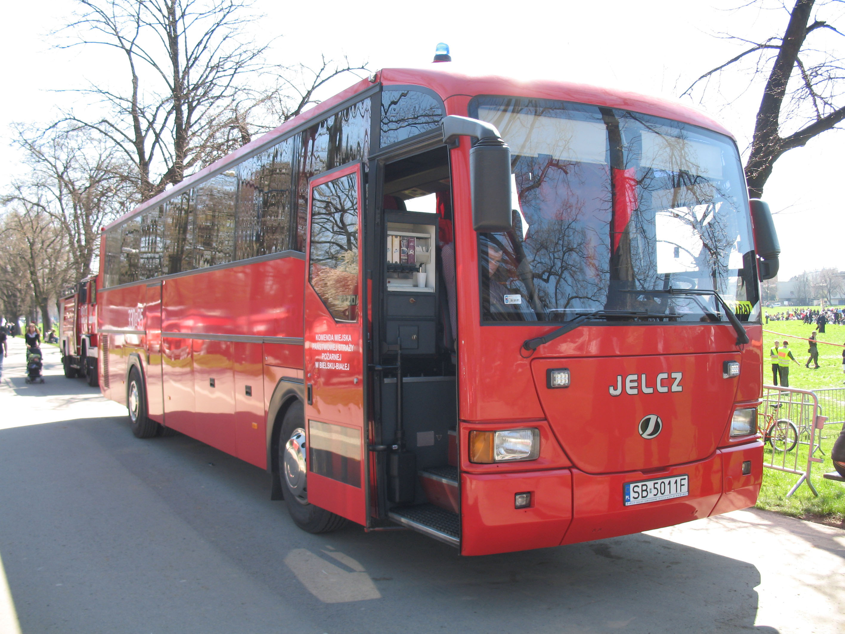 Jelcz T120/2 Ewa coach in Kraków, Poland. Built 2000, KM PSP Bielsko-Biała operator.